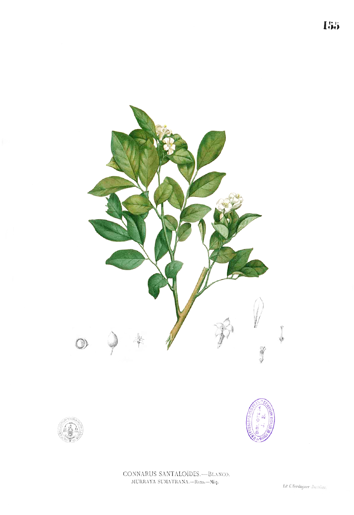 Plate from book